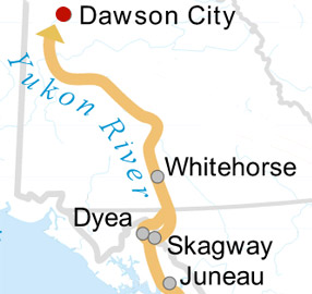 Detail of Klondike route map showing Chilkoot and White Pass trails